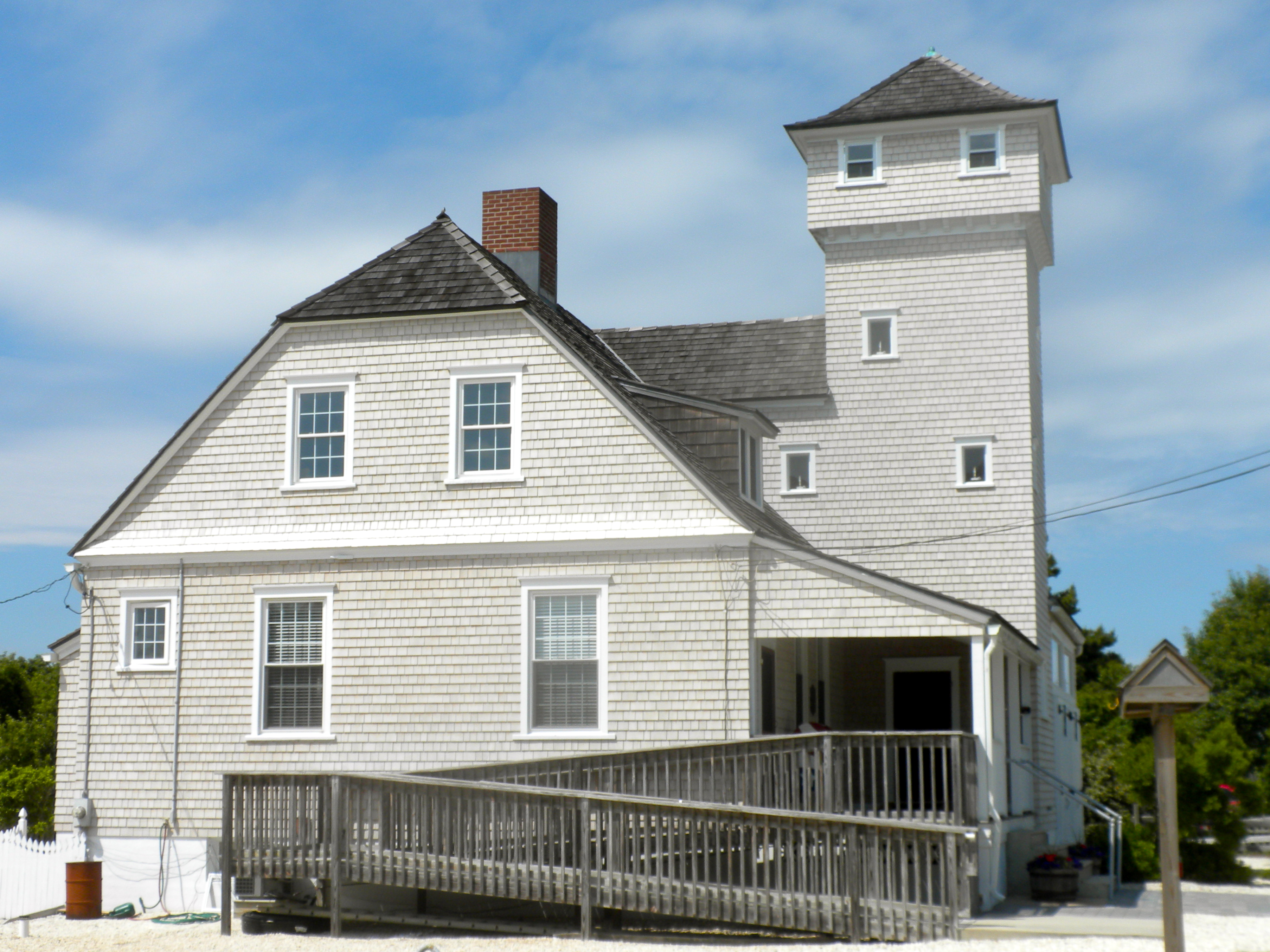 U.S. Life-Saving Station No. 35 on the NRHP since November 8, 2008. At 11617 2nd Ave. Stone Harbor, New Jersey in Cape May County. "Life saving" refers to saving the lives of the crew of commercial boats in the 1800s from shipwreck